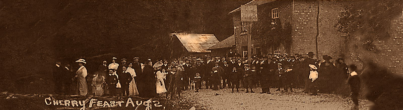 Cherry Pie Festival Cadsden Bucks